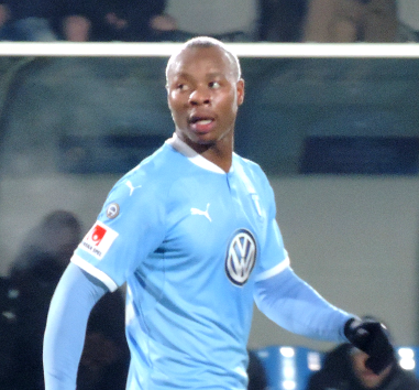 Practice game at Malmö IP, Malmö FF - FC Flora 4-0, 2018 Jan 26